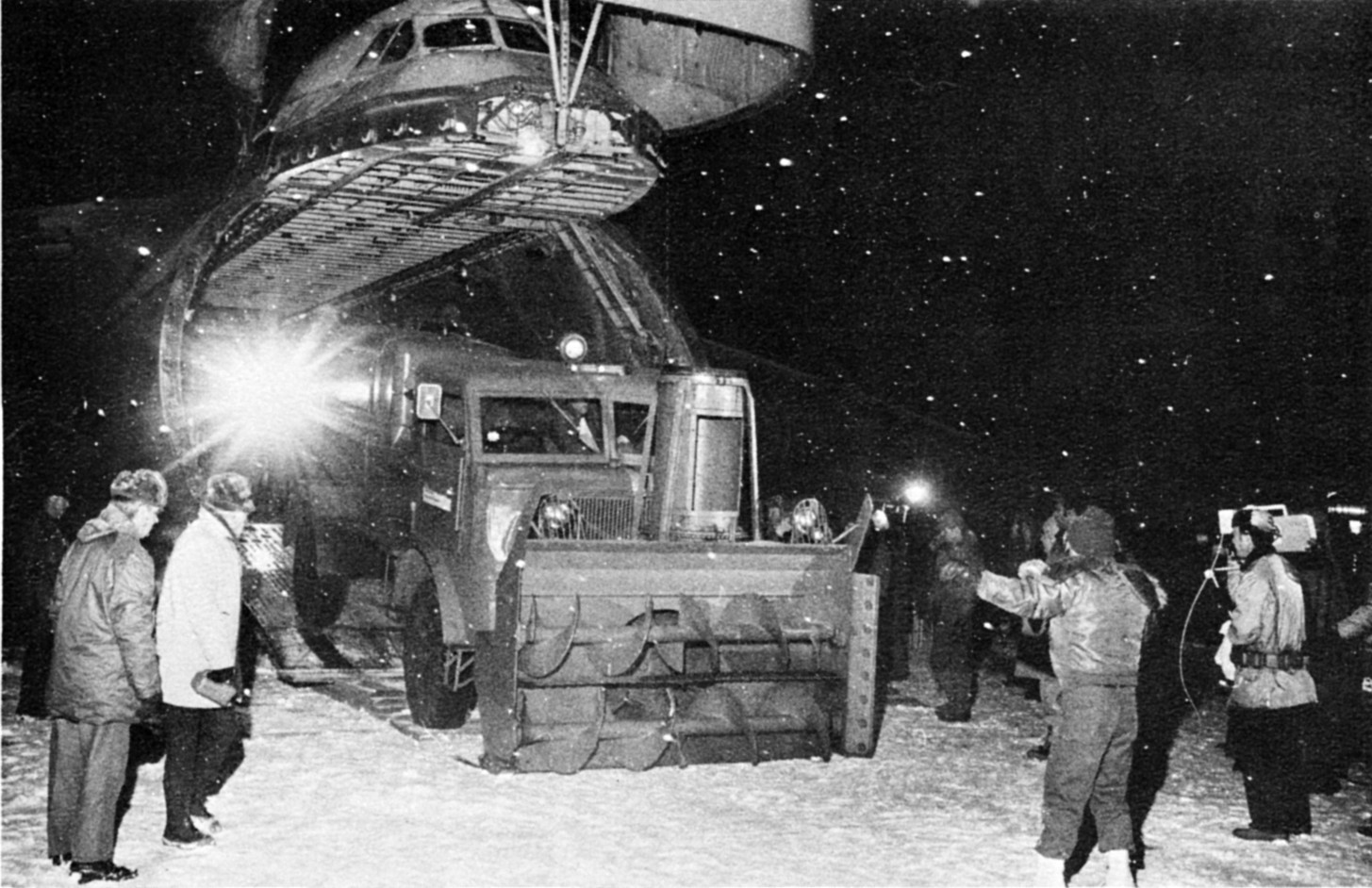 Snow fighting equipment being unloaded from a U.S. Air Force C-5A at Niagara Falls International Airport after the Blizzard of 1977